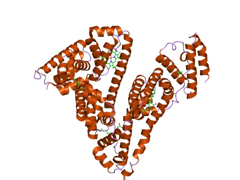 Cartoon representation of the molecular structure of protein registered with 1o9x code.